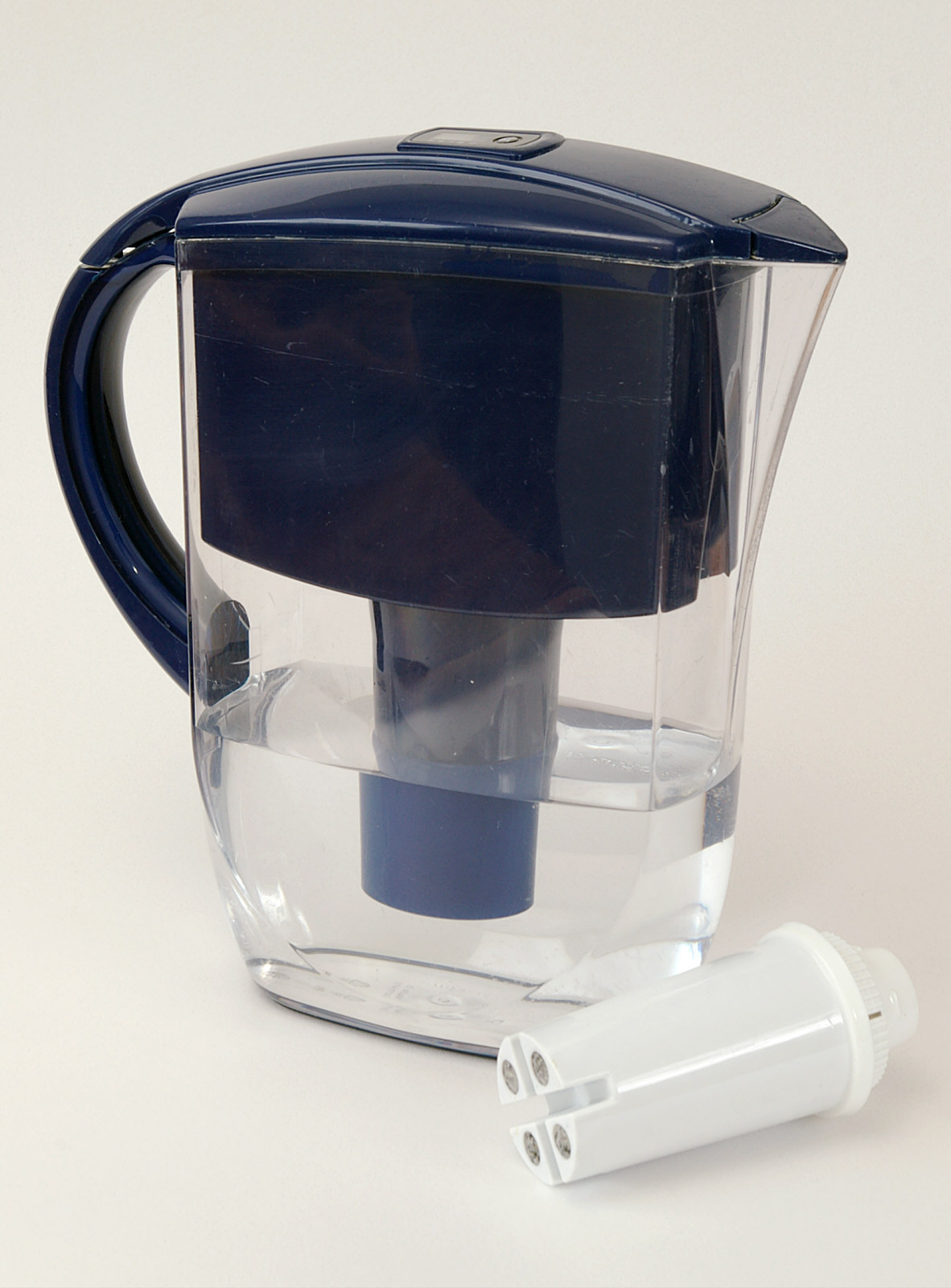 Typical household water filter replacement filter cartridge